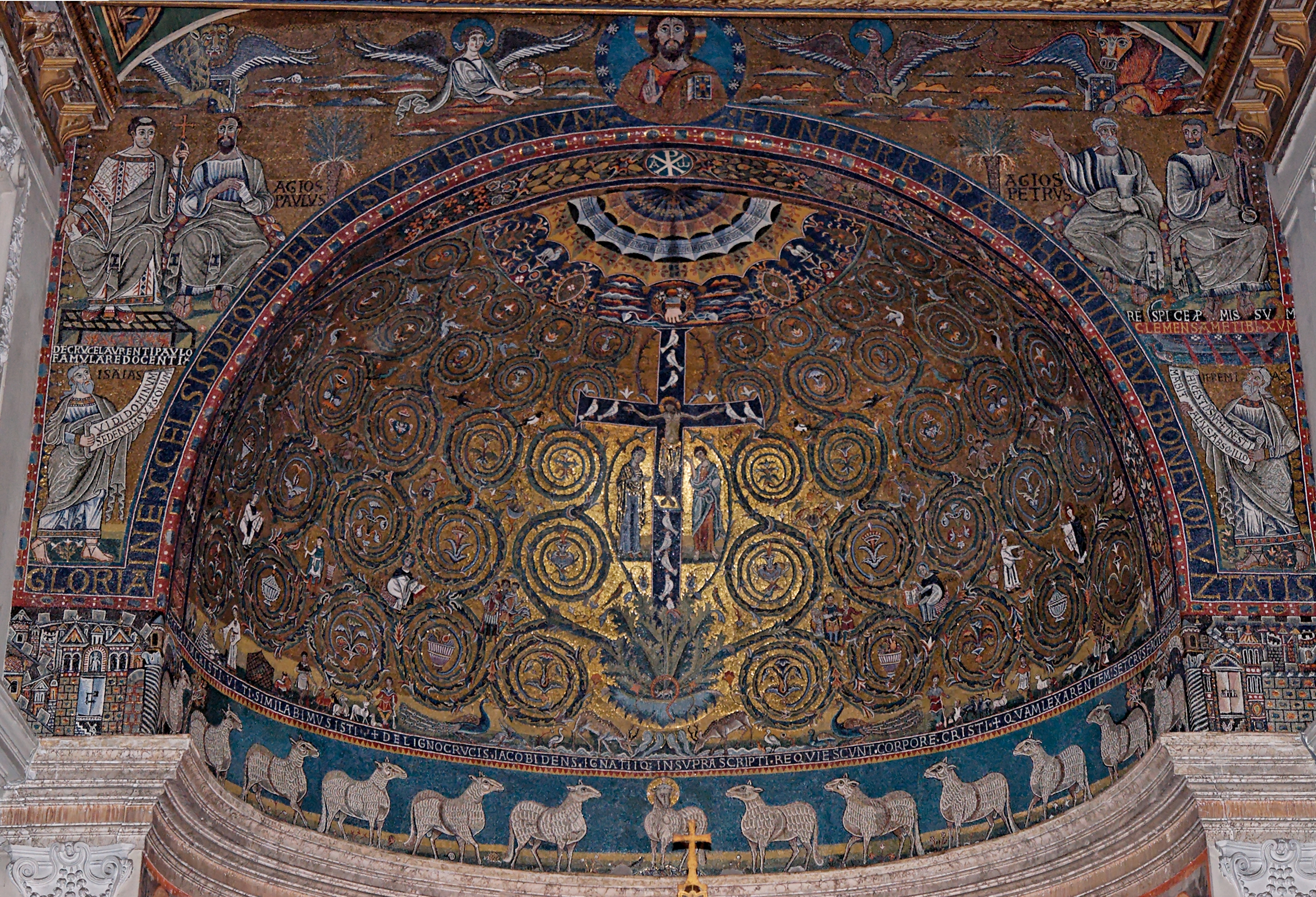 Triumph of the Cross. Apsis mosaic from Basilica San Clemente in Rome, 12th century.